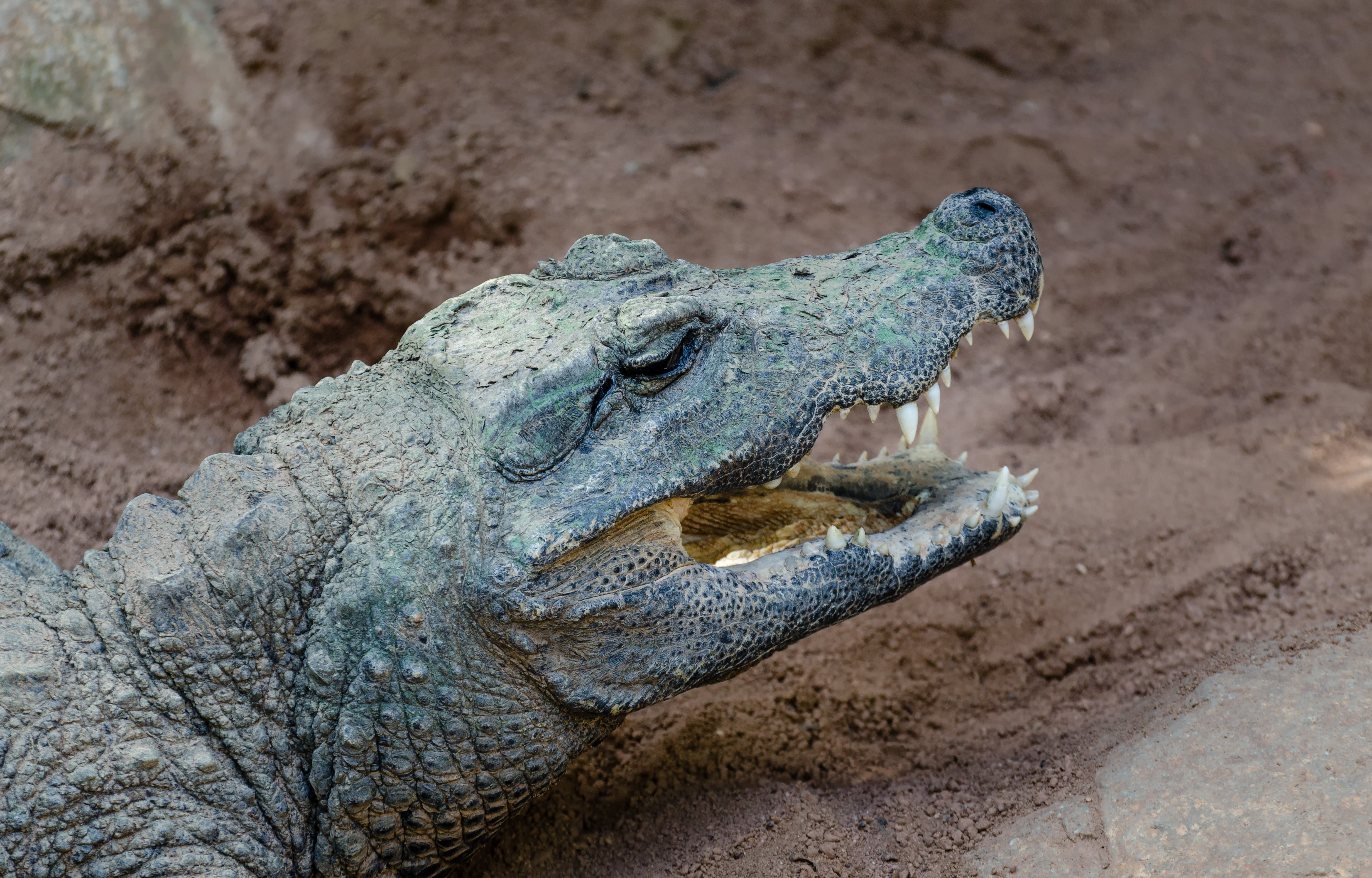 Dwarf crocodile (Osteolaemus tetraspis) photographed at Bioparc in Fuengirola, Andalusia